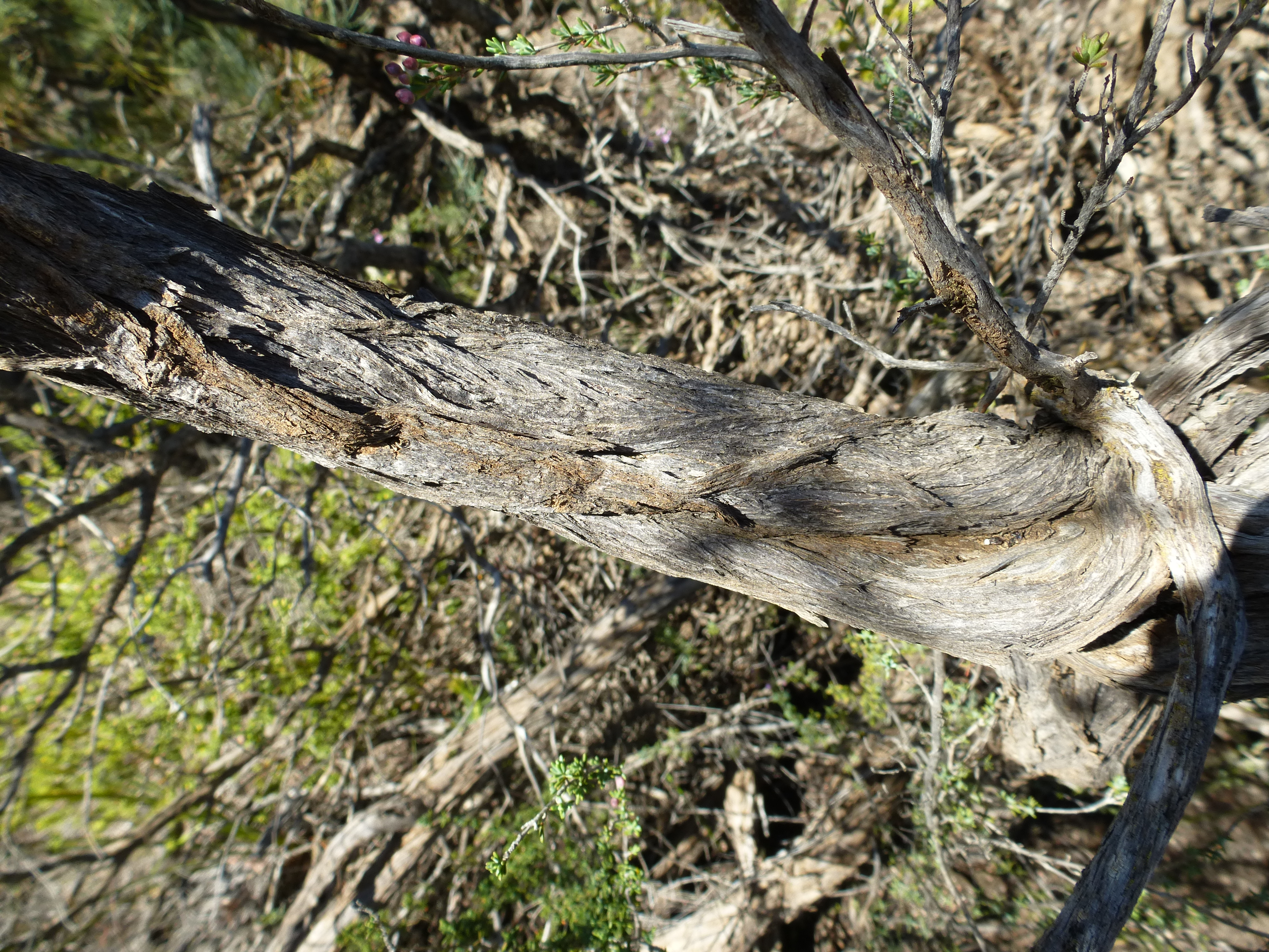 Melaleuca amydra 25km N of Eneabba